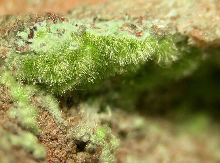 Zálesiite Locality: Tucumana Mine, Inca de Oro, Chañaral Province, Atacama Region, Chile Field of view 4 mm. Specimen and photo Leon Hupperichs.